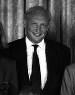 1992 Byzantine Studies Symposium Group at Dumbarton Oaks. Back row (standing) from left to right: Henry Maguire, Ioli Kalavrezou, Gilbert Dagron, Marie-Theres Fogen, J.H.A. Lokin, Angeliki E. Laiou, Dr. Paul Magdalino, Ruth Macrides, George T. Dennis Front row (seated) from left to right: Anna Kartsonis, Aleksandr Kazhdan, Dieter Simon, Kathleen Anne Corrigan, Ioannes M. Konidares, Helen Saradi-Mendelovici